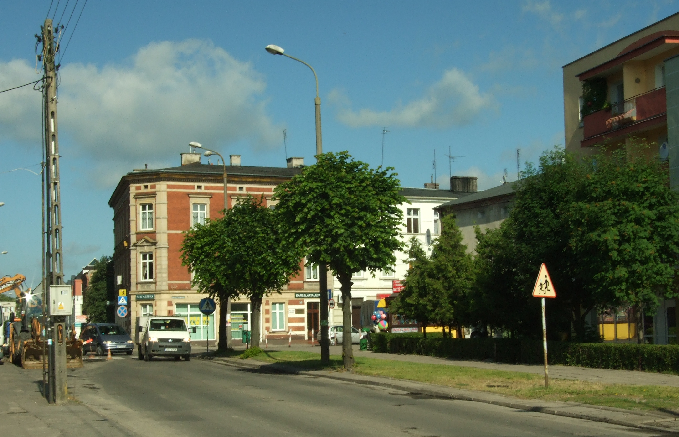 Tadeusza Kościuszki street in the town of Starogard Gdański, Pomeranian voivodeship, Poland